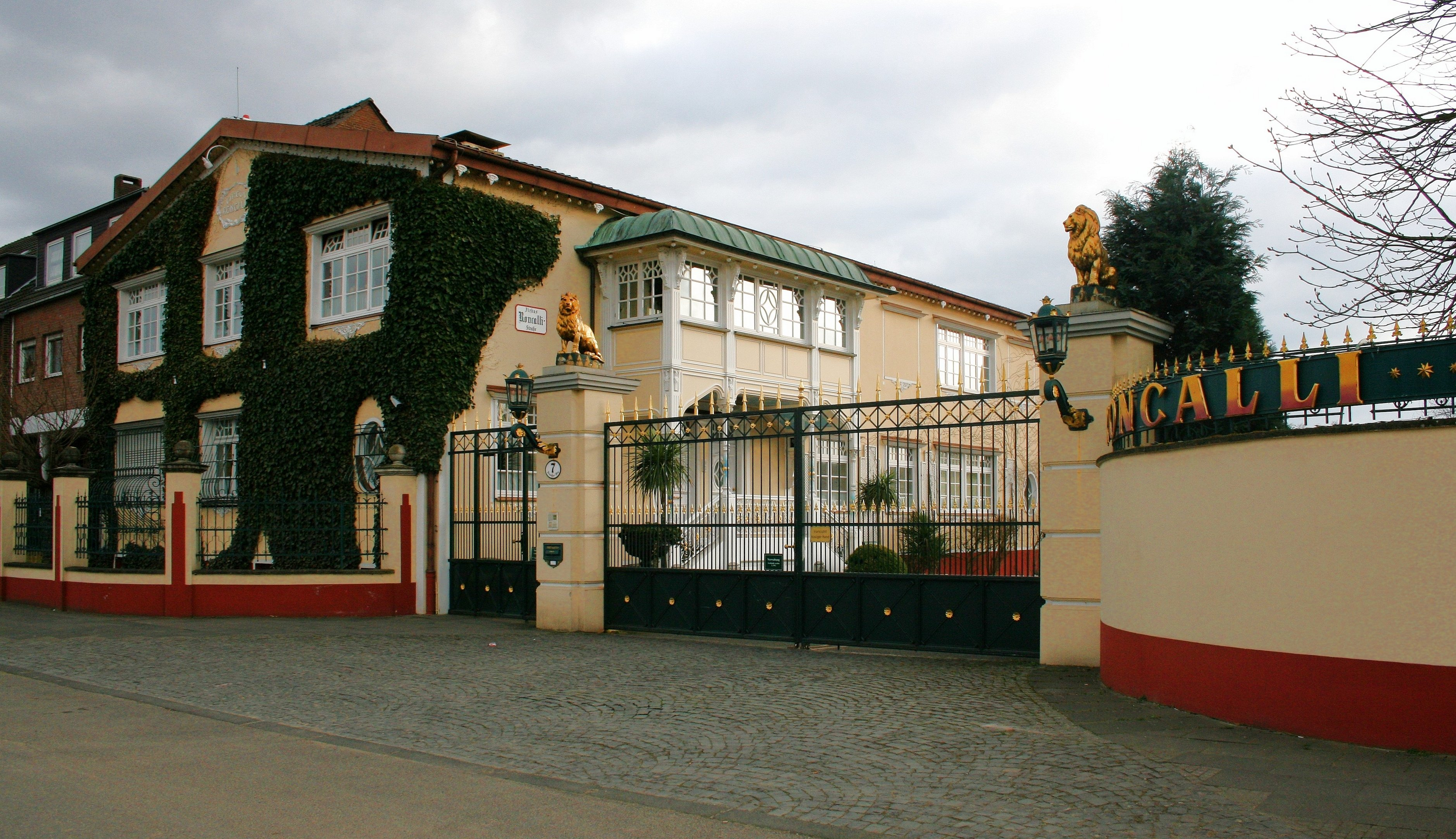 Cologne (Mülheim): Winter quarters of the Circus Roncalli, private residence, headquarters of the Circus Roncalli GmbH and other companies of Bernhard Paul. Former Owner: family of Circus Williams; bought by Berhard Paul in 1984. On the grounds (10.000 m²) also are located: the collections of Bernhard Paul (Circus inventory, historical shop fittings and much more), where the circus will be placed under cars, maintained, repaired and restored.